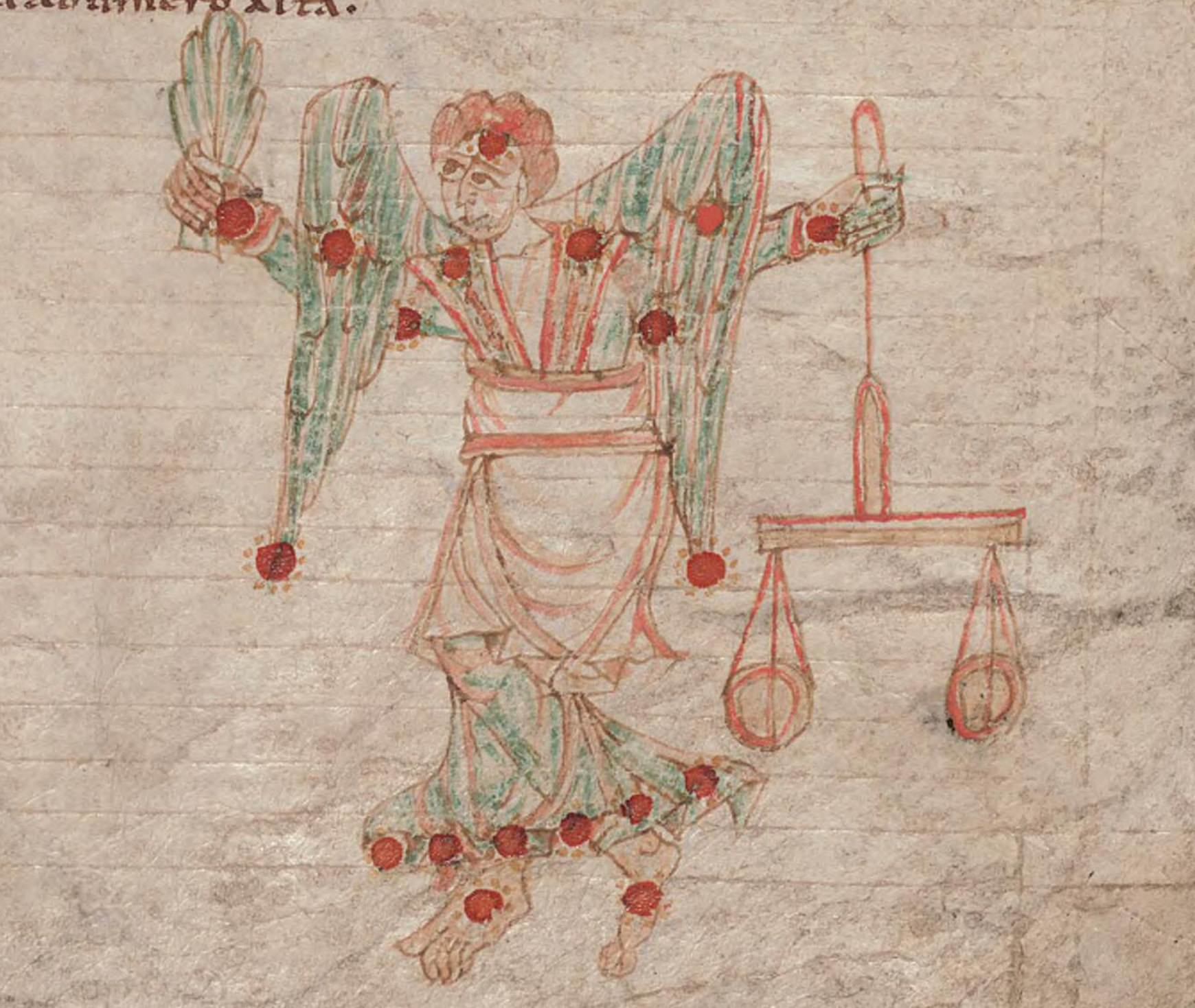 The oldest scientific manuscript in the National Library the volume contains various Latin texts on astronomy. The volume, written in Caroline minuscule, consists of two sections, the first (ff. 1-26) copied c. 1000, in the Limoges area of France, probably in the milieu of Adémar de Chabannes (989-1034), whilst the second (ff. 27-50), from a scriptorium in the same region, may be dated c. 1150.